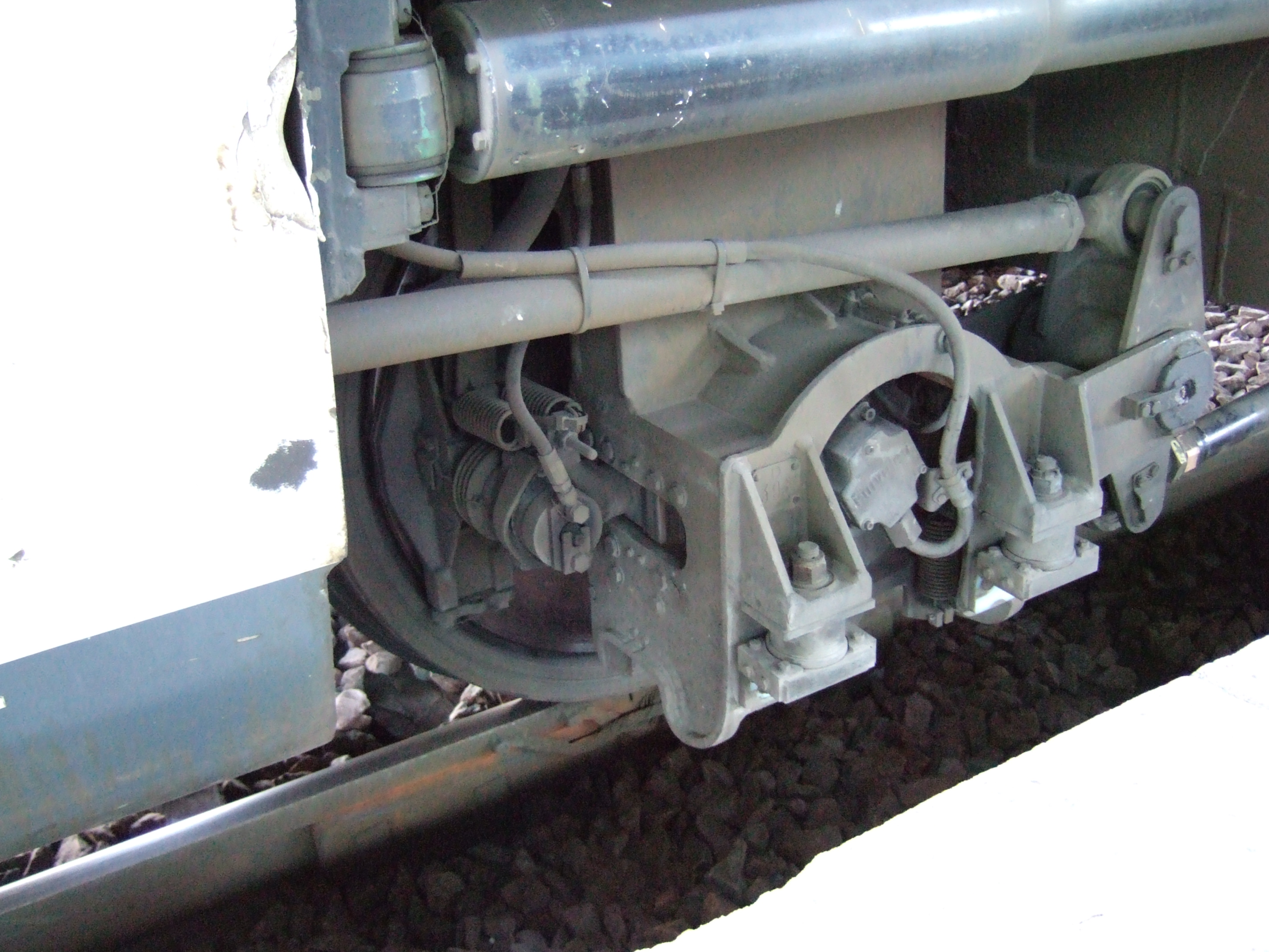 The variable gauge axle of Talgo, at the standard gauge. Photograph taken at Paris.